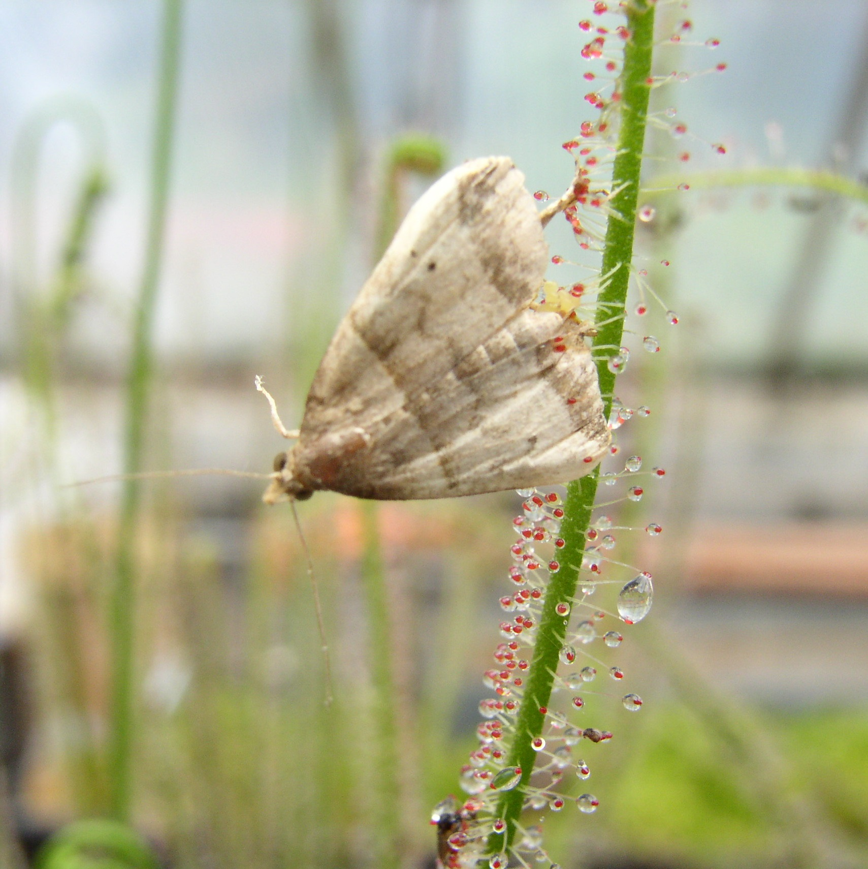 Moth, Phalaenophana pyramusalis (Dark-banded Owlet) trapped by Drosera filiformis. Size: 10 mm. Pennypack Restoration Trust, Montgomery County, Pennsylvania, USA.